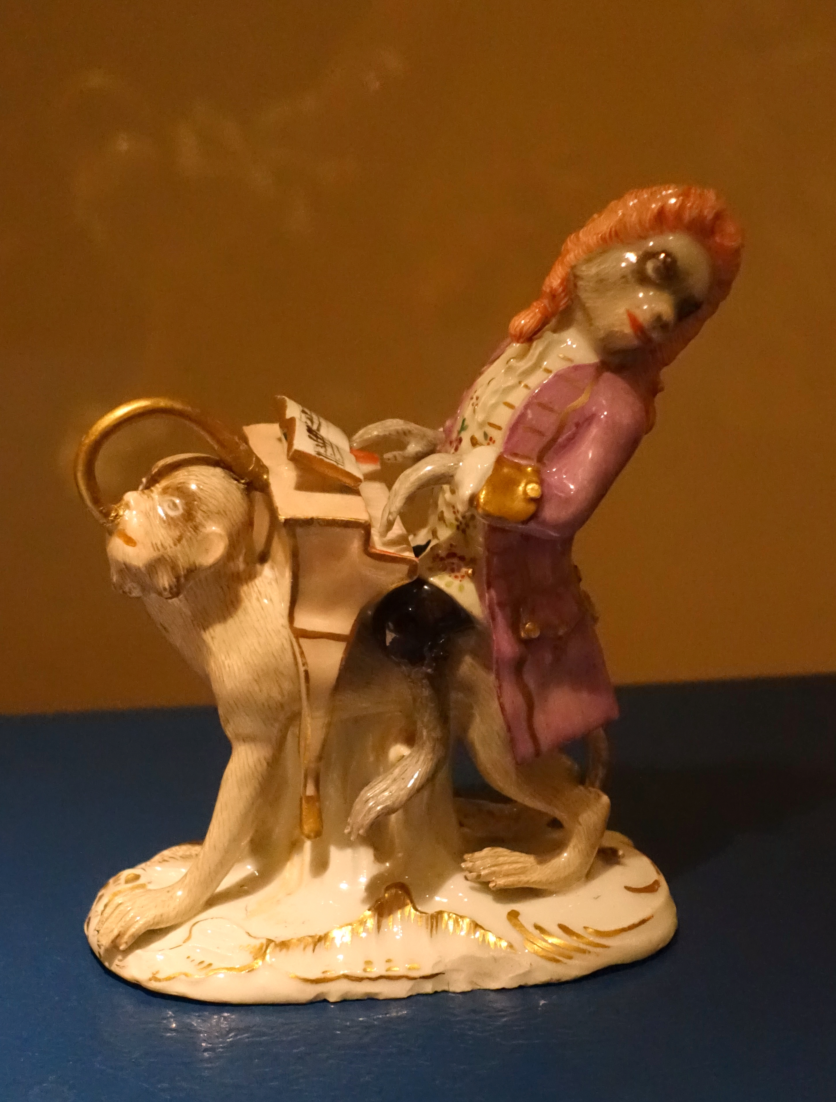 Exhibit in the Braunschweigisches Landesmuseum, Braunschweig, Germany. This work is in the public domain because the artist died more than 100 years ago.